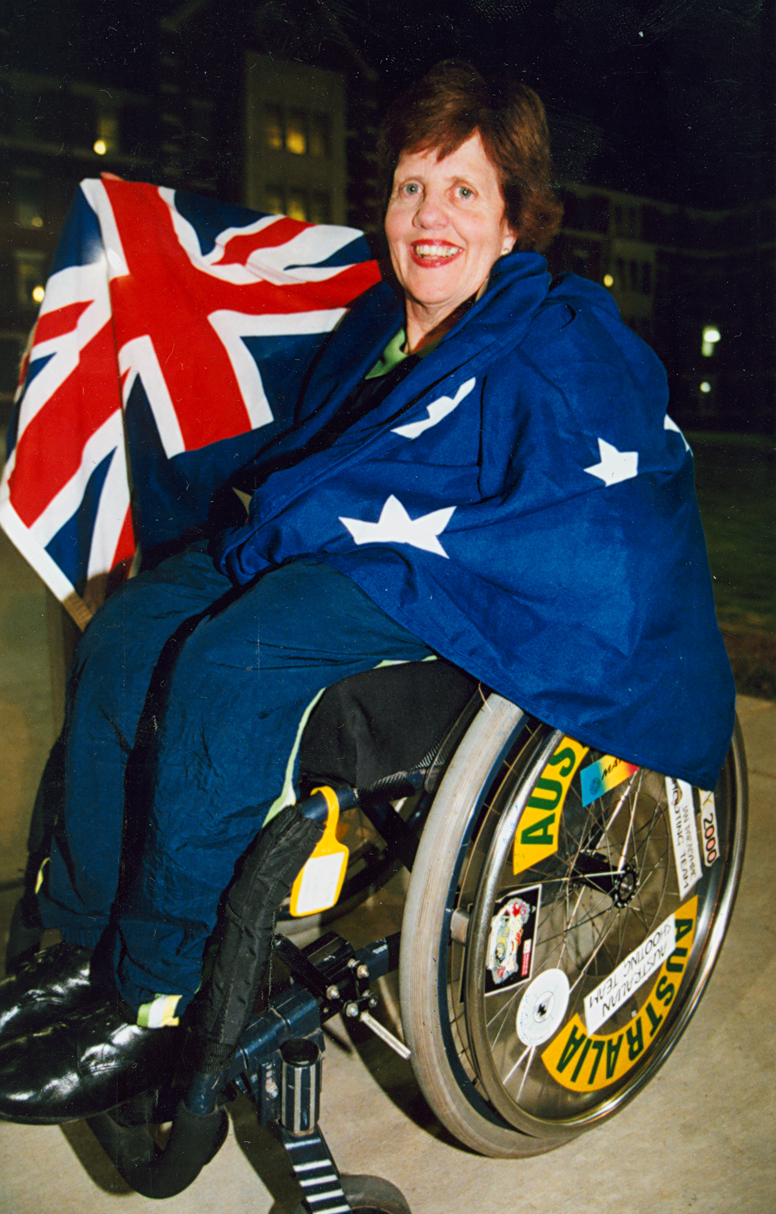 Australian paralympic shooter, Elizabeth Kosmala, at the Atlanta 1996 Paralympic Games.